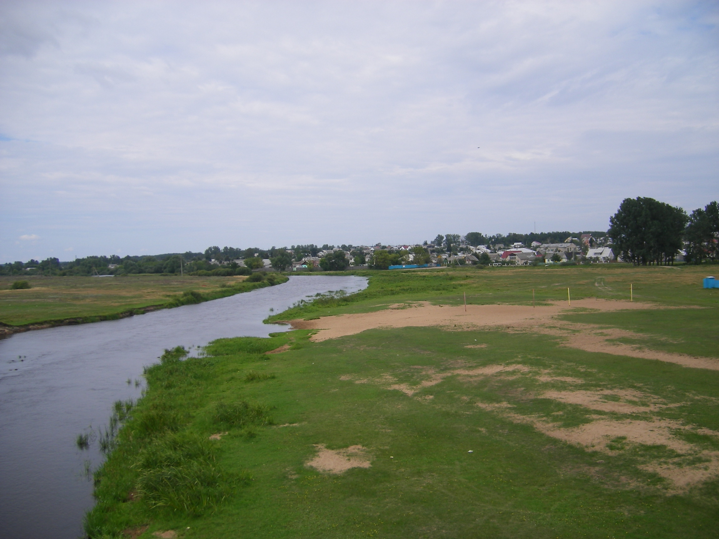 Neman river in Stowbtsy